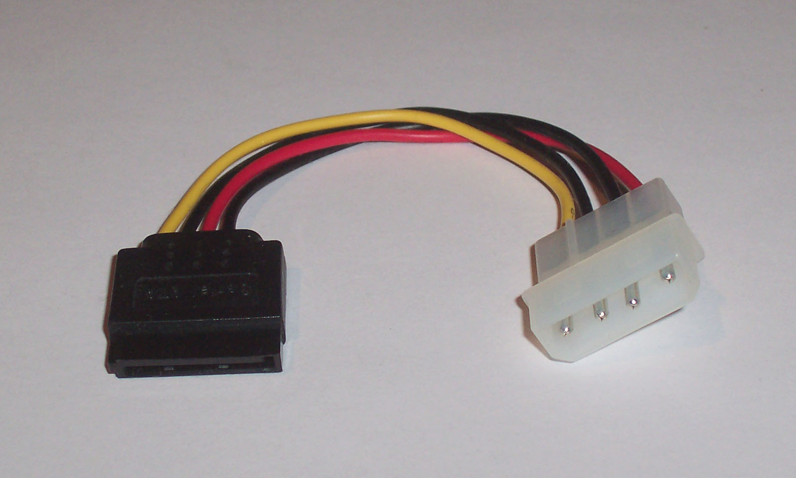 Single Molex to SATA power conversion cable